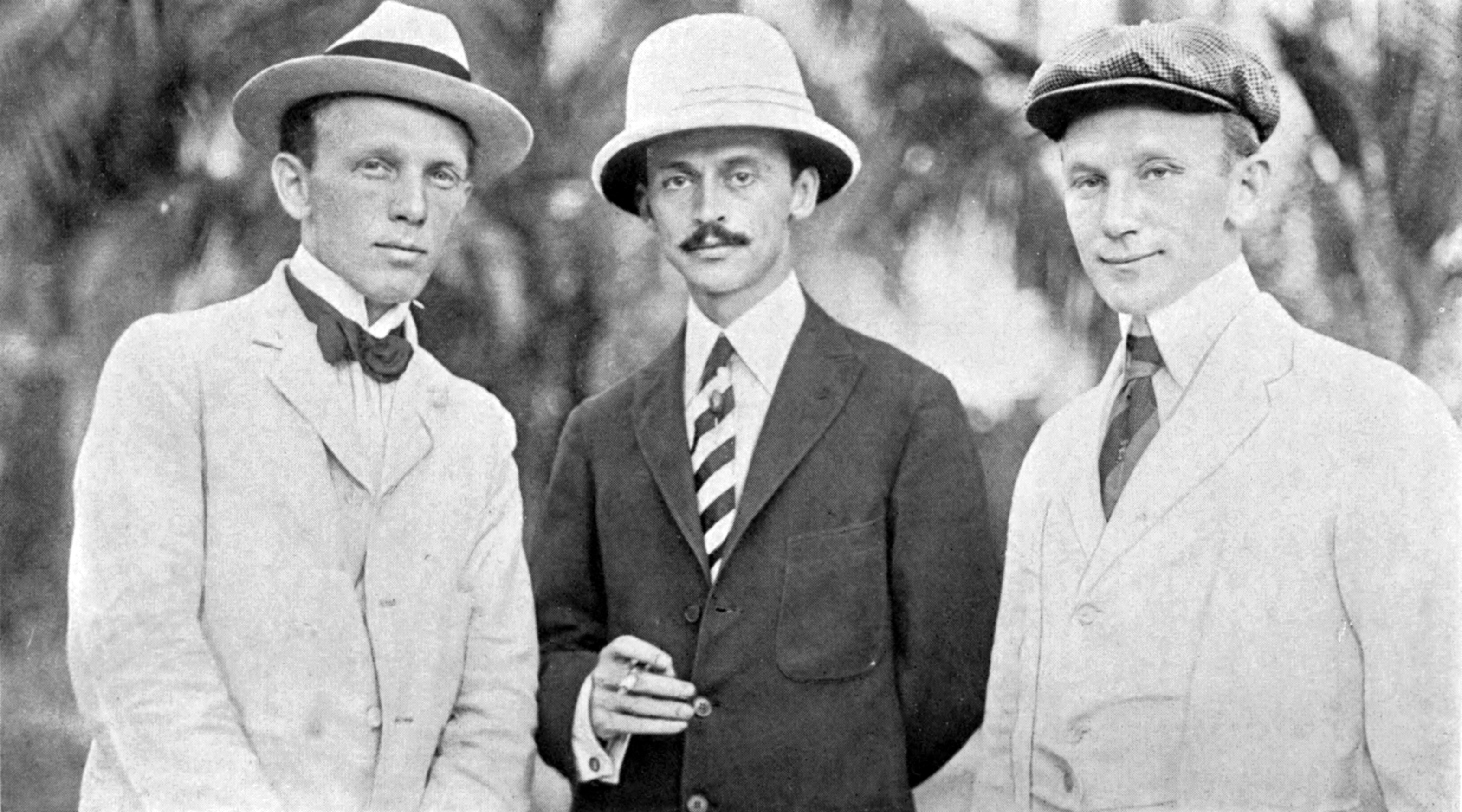 Photograph of filmmakers John E. Williamson, Carl L. Gregory and George M. Williamson in Nassau, Bahamas alternate photo